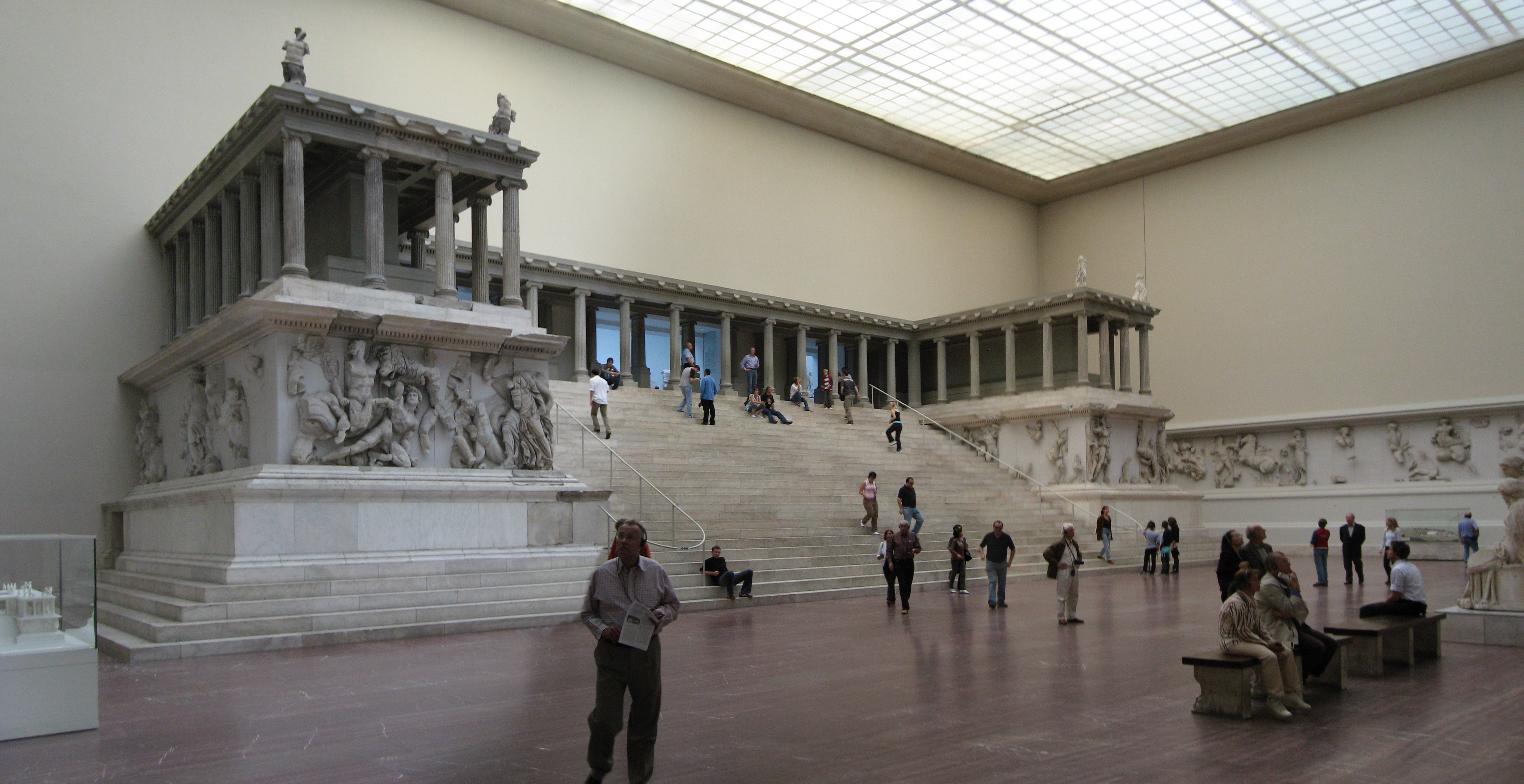 The Pergamon Altar in the Pergamonmuseum in Berlin